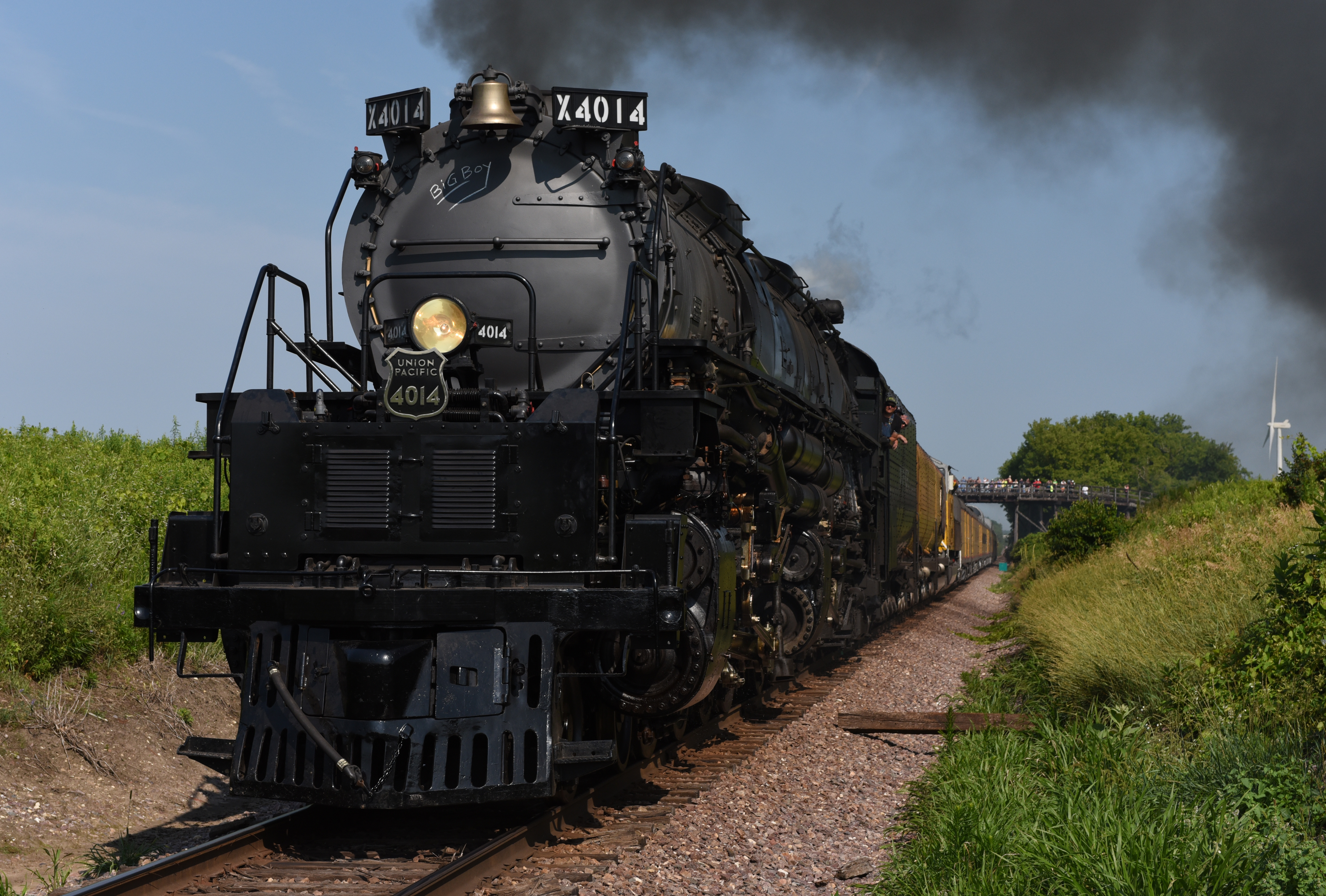 4014 makes its way towards Friesland, WI. Taken 7/25/19